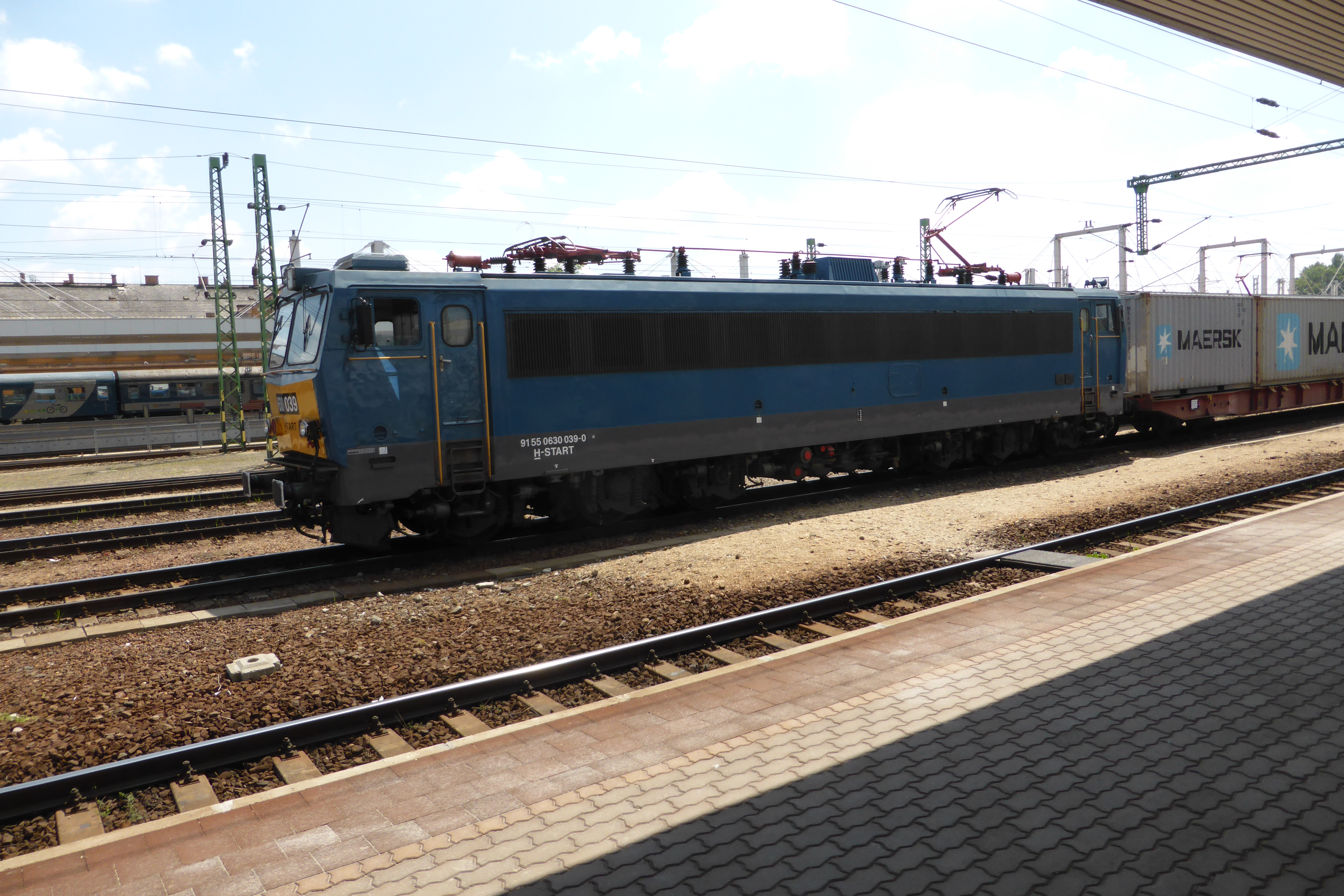 MÁV 630 039-es villamosmozdony, Kelenföld állomáson, 2017. május 14-én